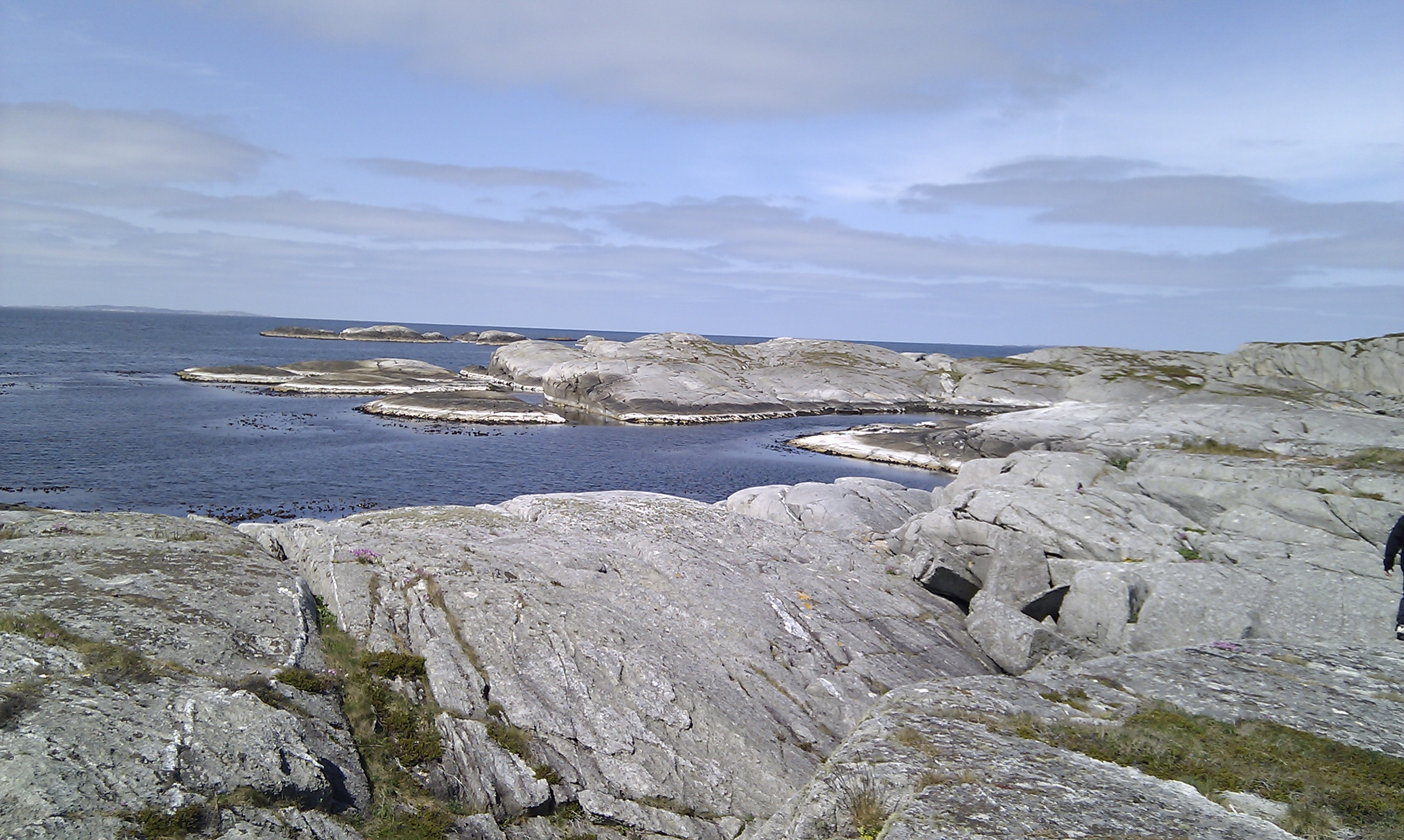 kavholmen